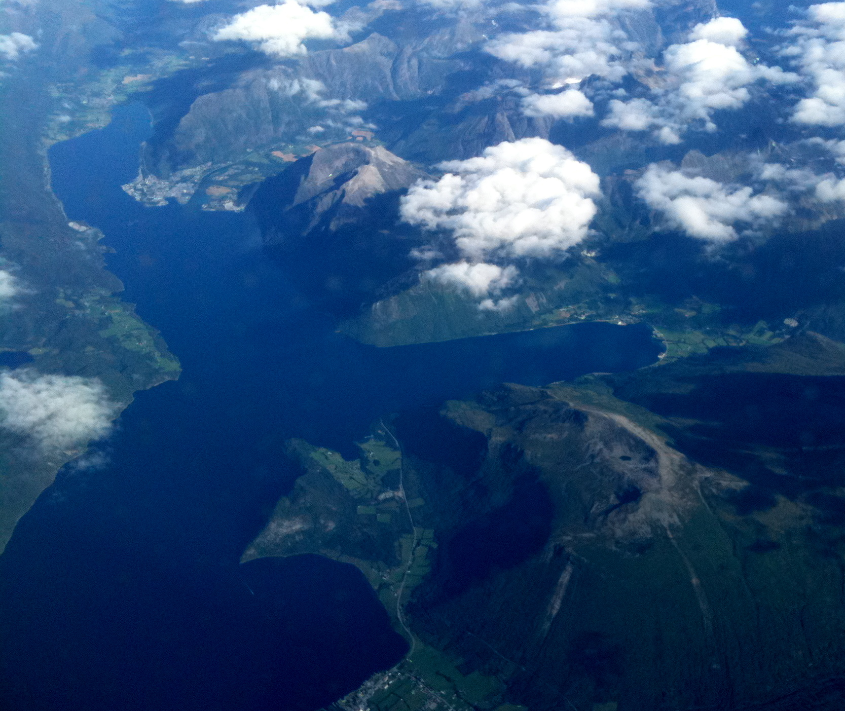 View of Romsdalsfjorden and Åndalsnes